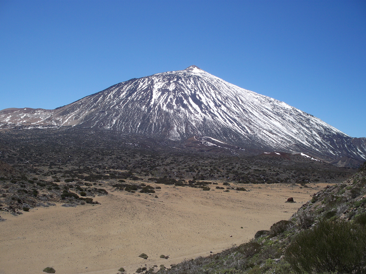 Mount Teide